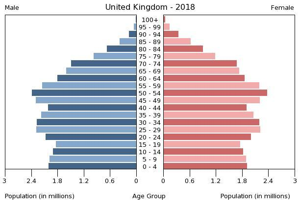 The population pyramid of the United Kingdom illustrates the age and sex structure of population and may provide insights about political and social stability, as well as economic development. The population is distributed along the horizontal axis, with males shown on the left and females on the right. The male and female populations are broken down into 5-year age groups represented as horizontal bars along the vertical axis, with the youngest age groups at the bottom and the oldest at the top. The shape of the population pyramid gradually evolves over time based on fertility, mortality, and international migration trends.